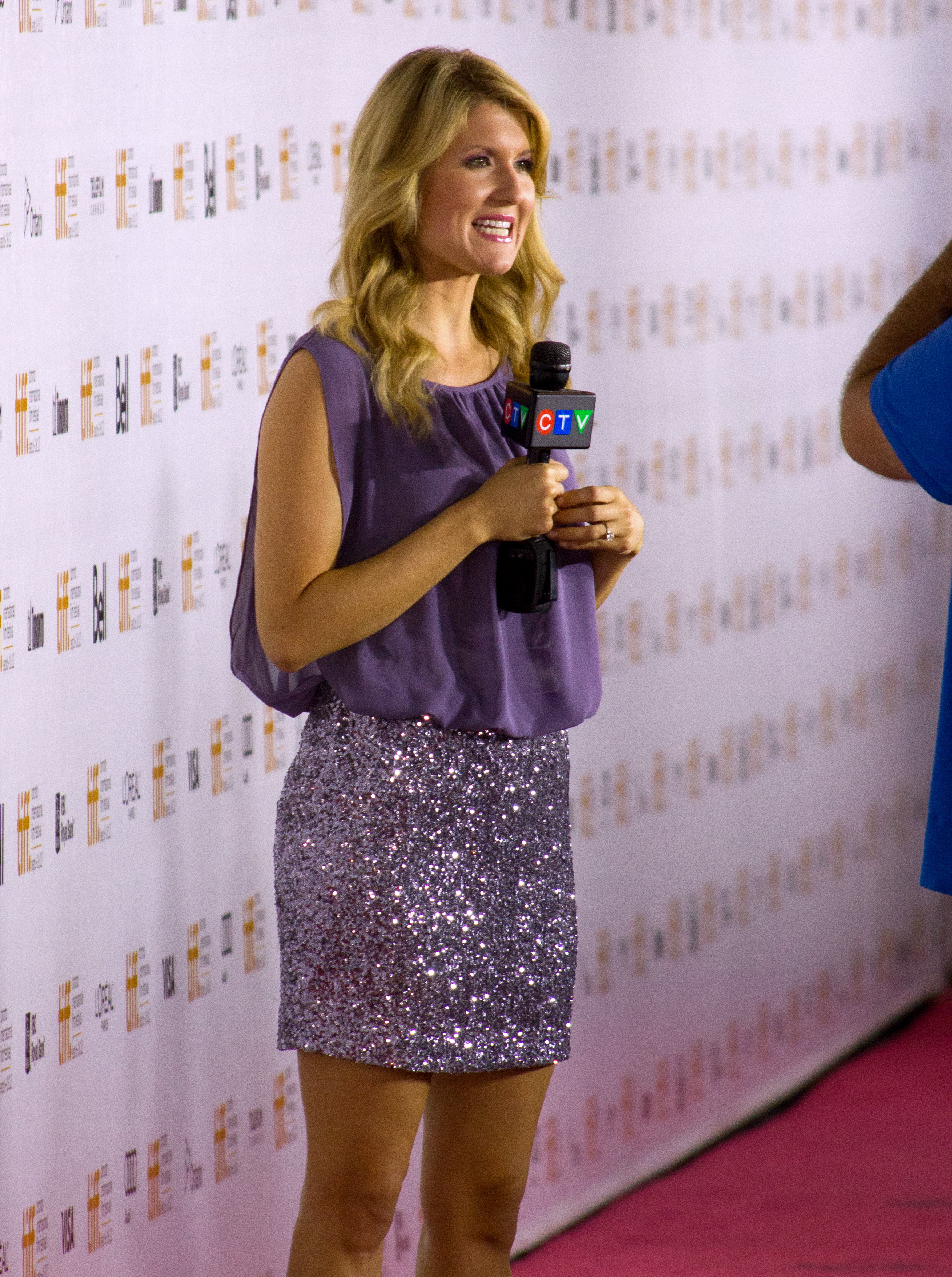 Reporter Michelle Dubé doing a report at the Toronto International Film Festival showing of Twice Born